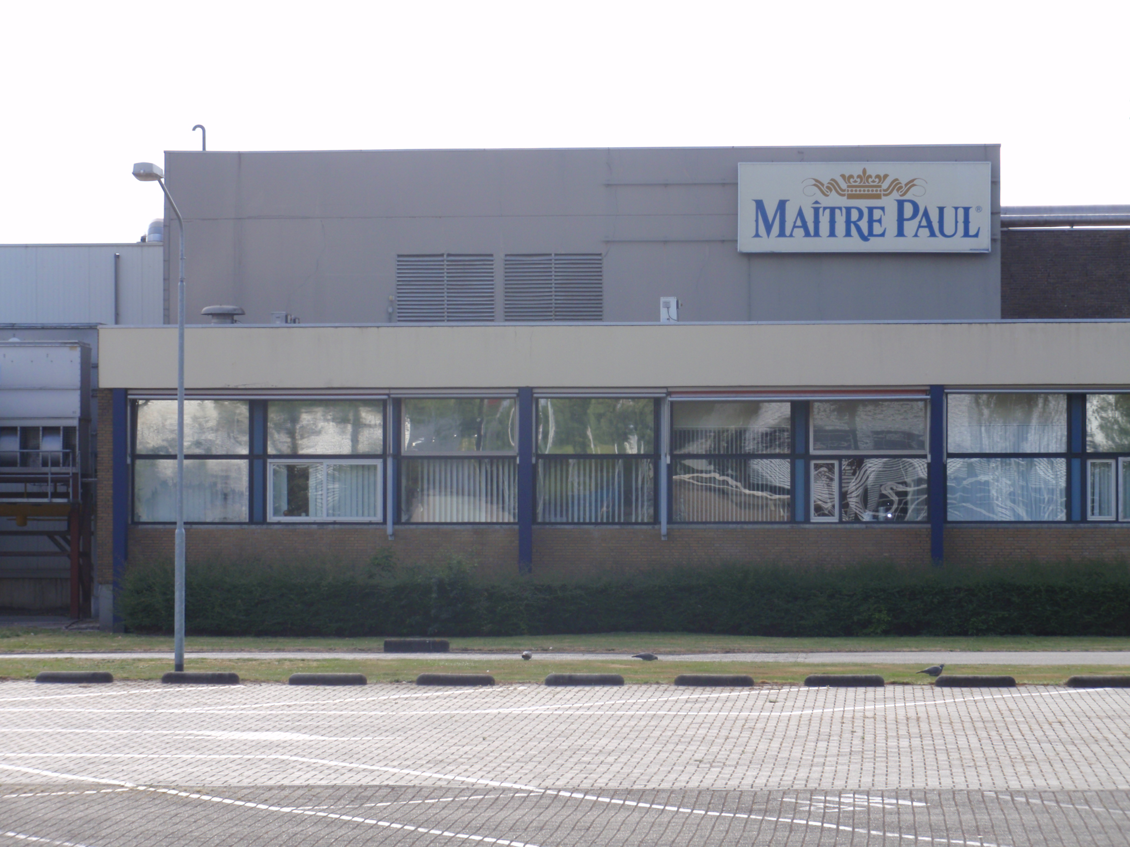 Maître Paul pastries (TIlburg)